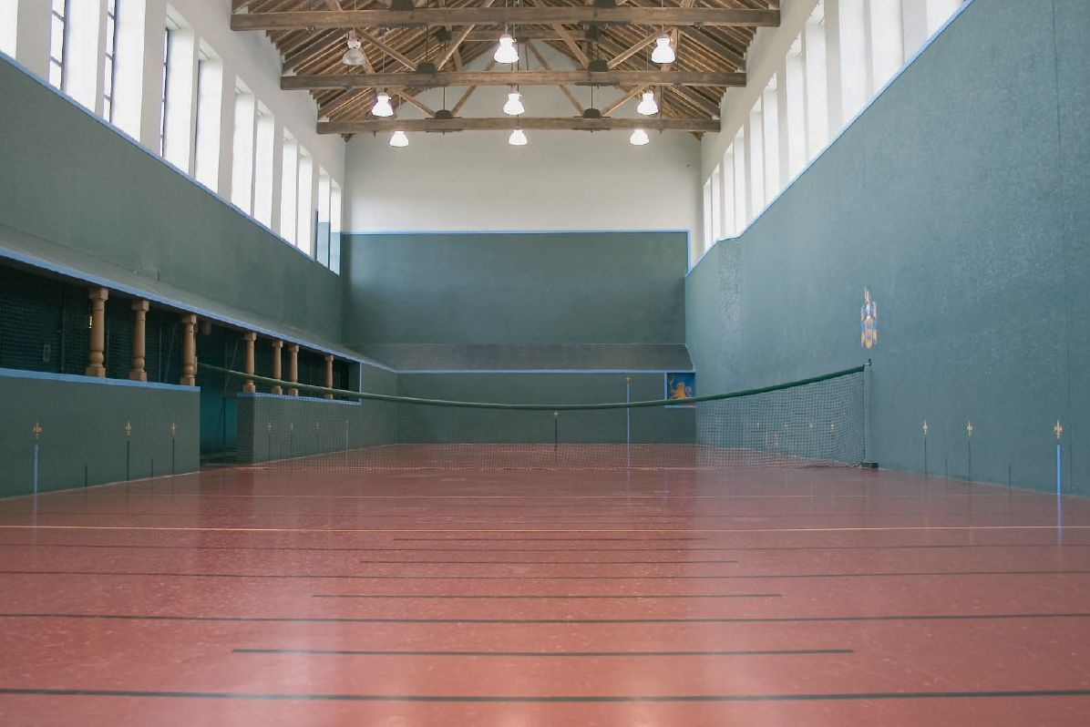 Hyde real tennis court in England.